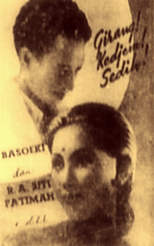 Basoeki and Fatima in Kedok Ketawa